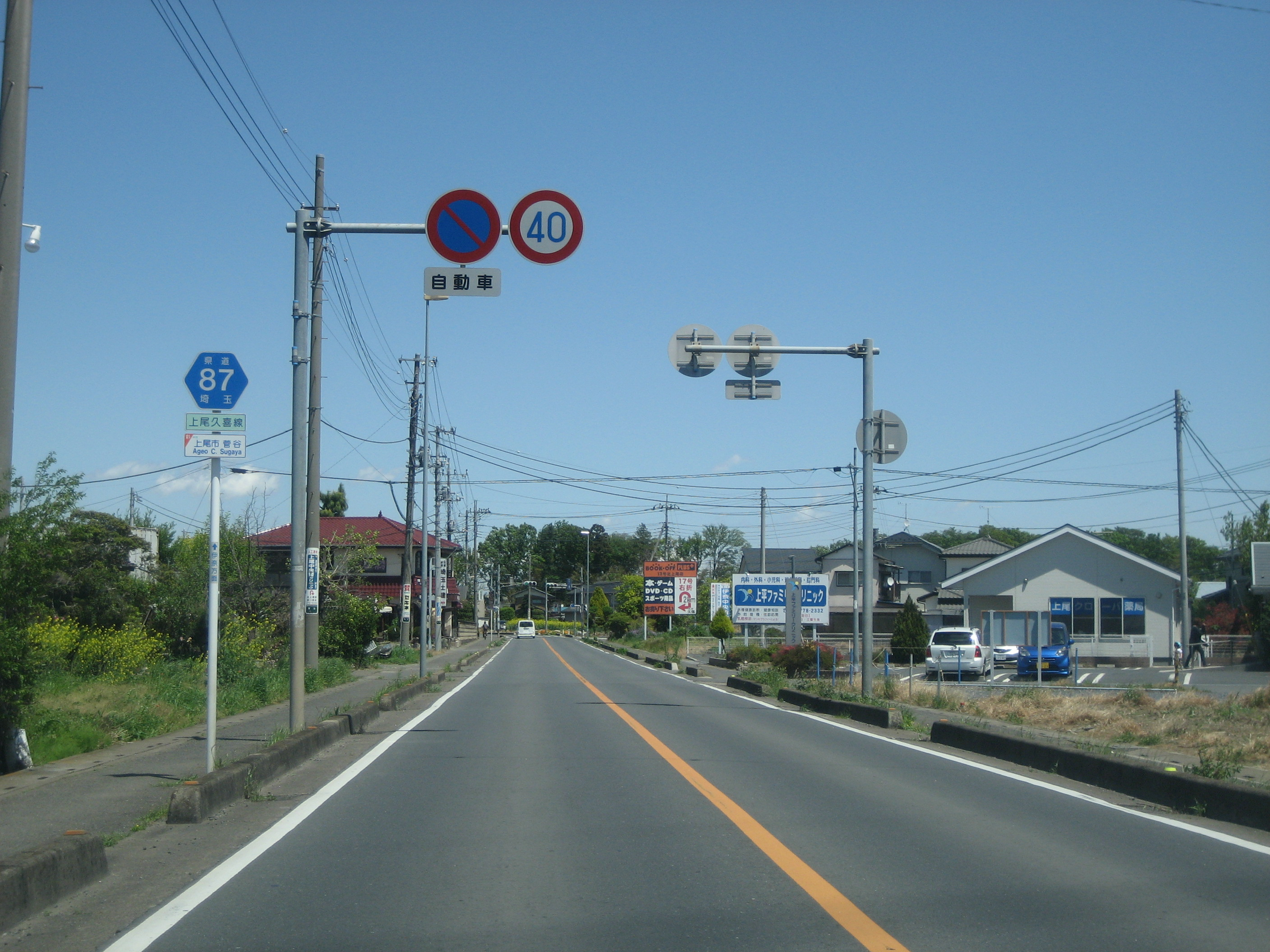 The Saitama Prefectural Road Route 87 in Sugaya, Ageo City